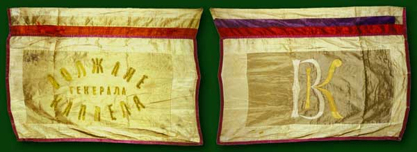 Volga (Army, Whites)